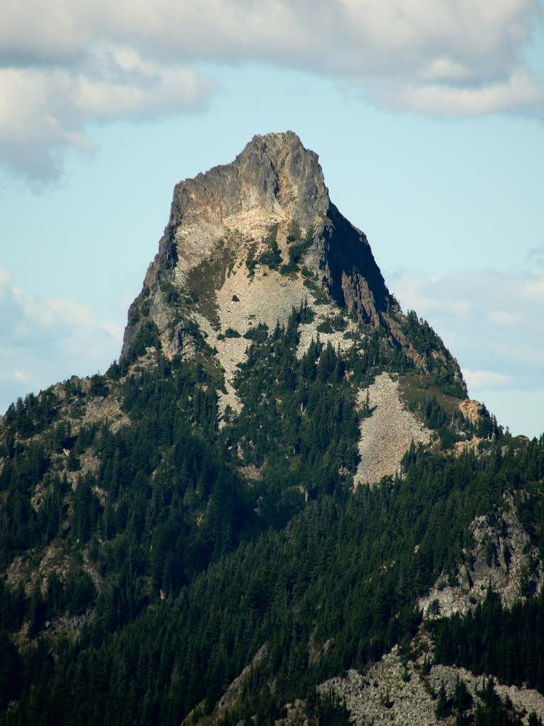 Granite Mountain, September 7, 2008.